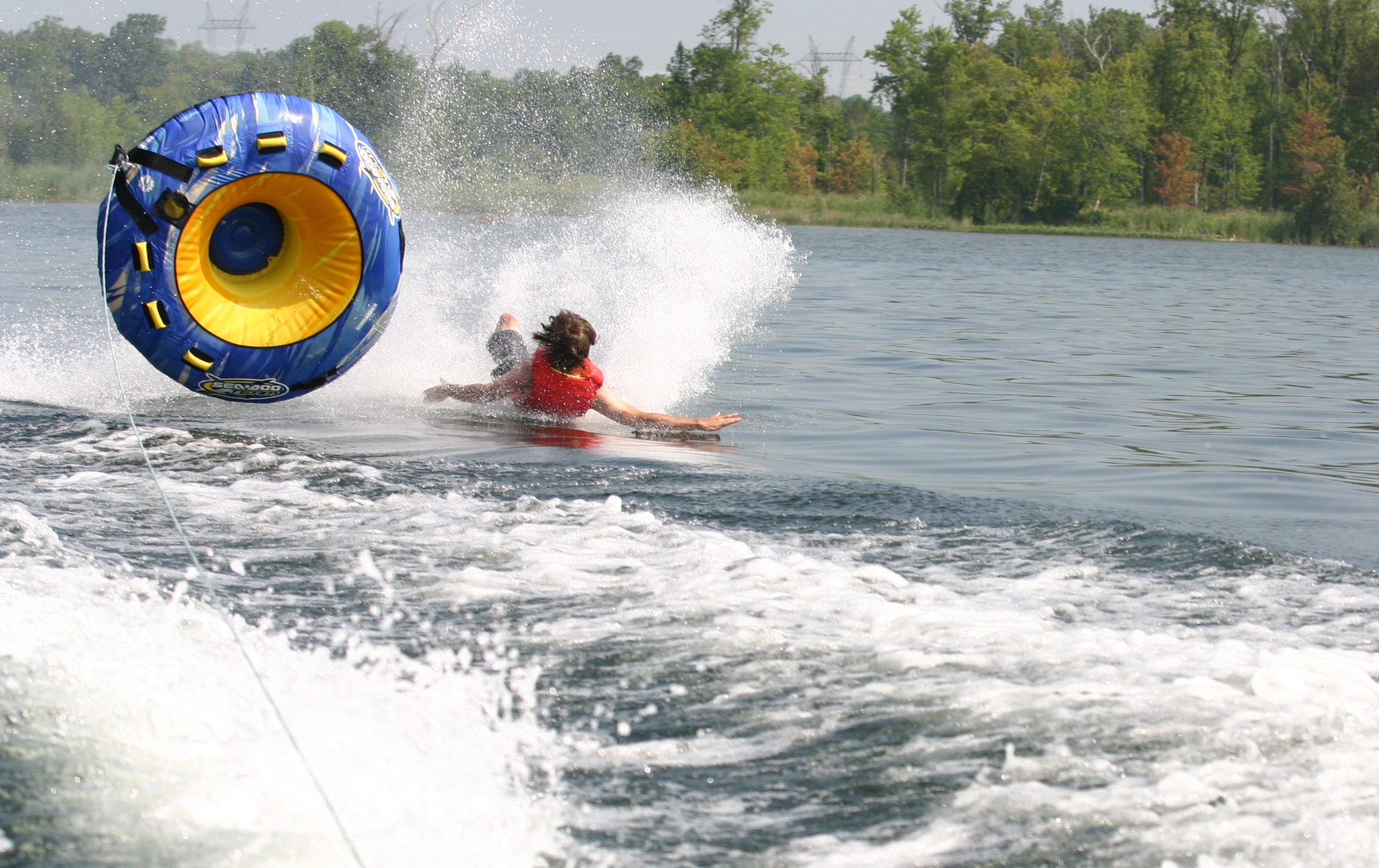 A man falling off of a tube that is being pulled behind a motorboat on Loughborough Lake in Sydenham, Ontario, Canada